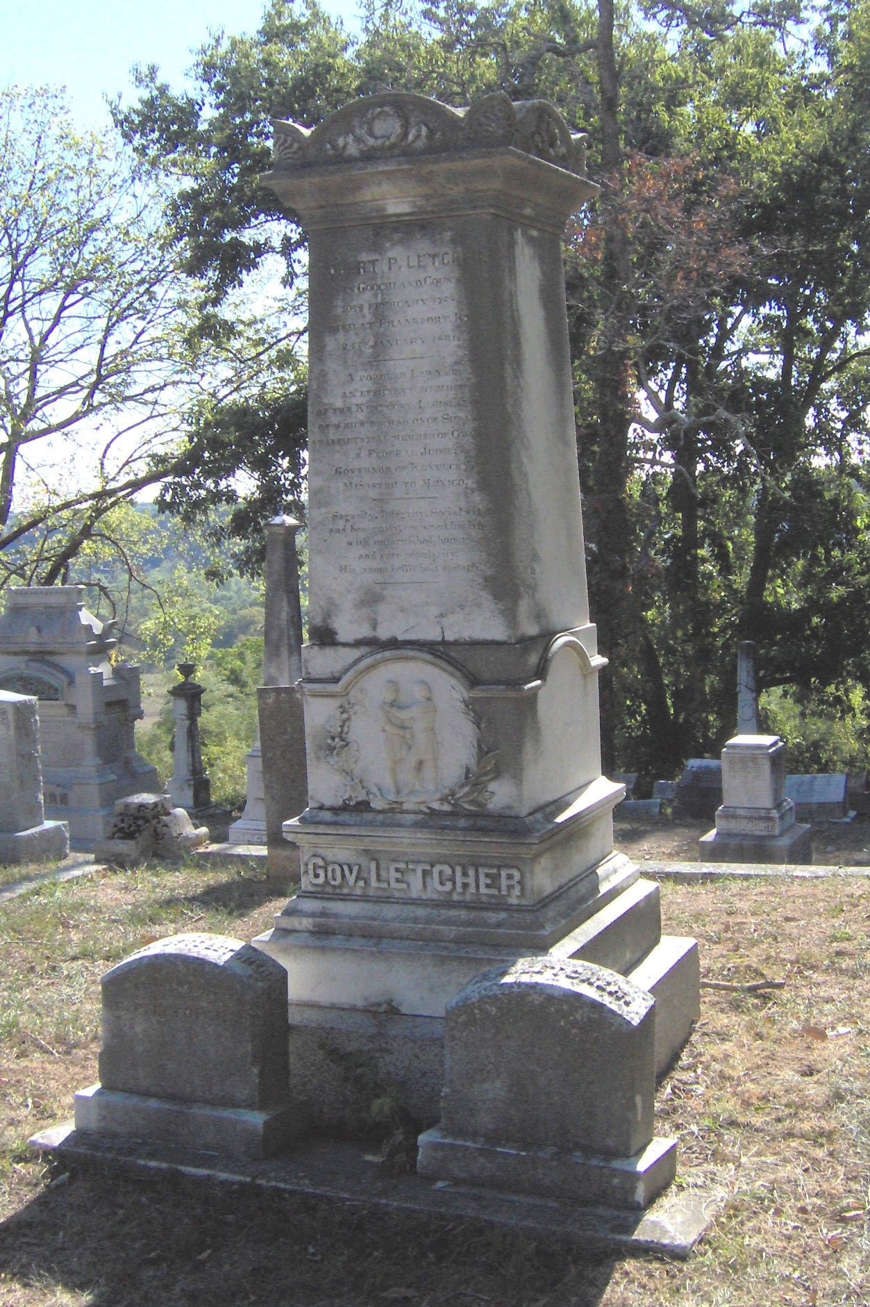 Gravestone of former Kentucky Governor Robert P. Letcher at Frankfort in Frankfort, Kentucky.